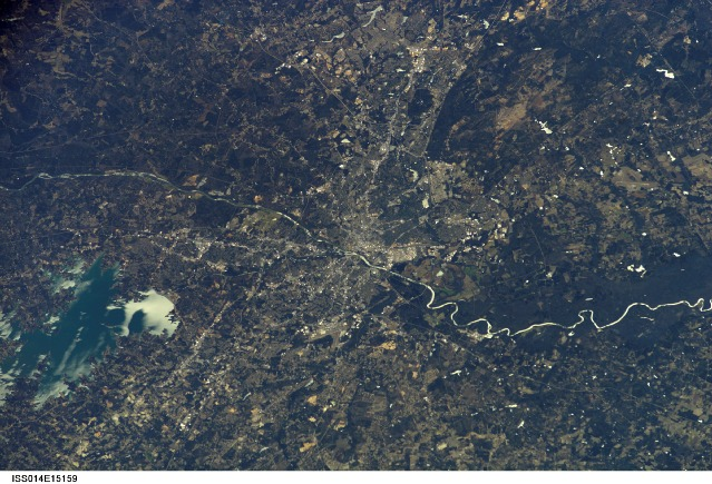 Astronaut Photography of Columbia South Carolina taken from the International Space Station (ISS)